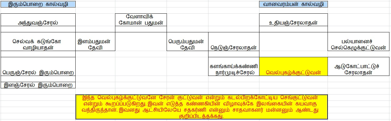 Gajabahu Synchronism in Tamil